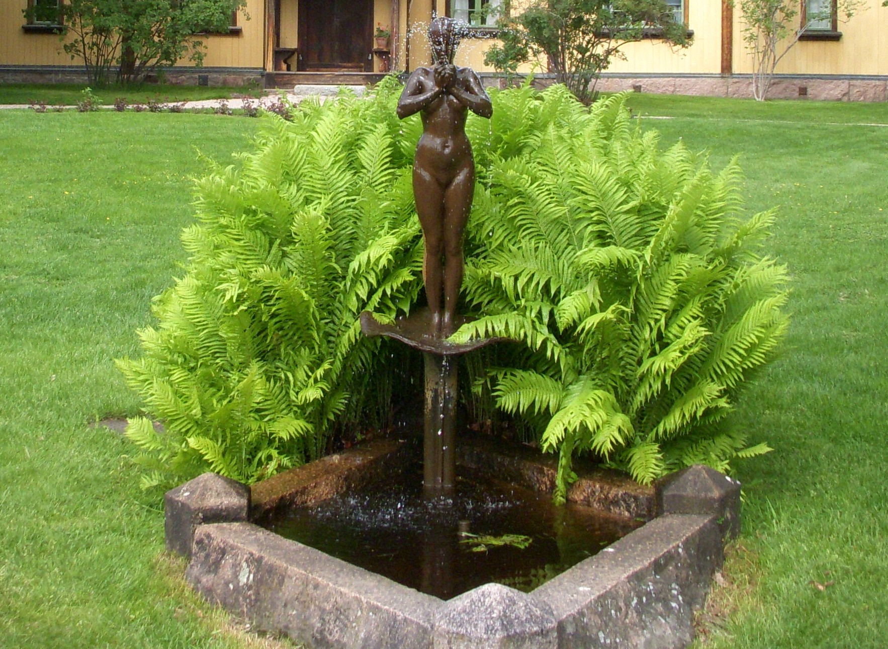 A fountain statue "Morgonbad" (Morning bath) by the Swedish artist Anders Zorn. Mora, Sweden.